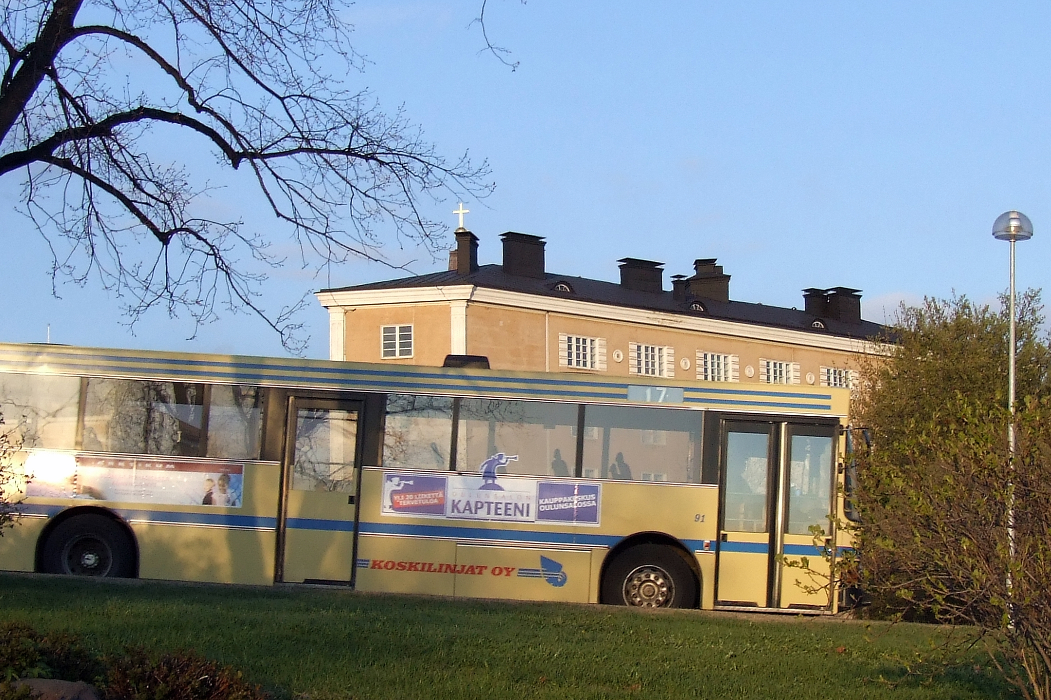 A local bus (no. 91, BNB-140, Volvo B10M/Wiima K202, 1989) of the Koskilinjat bus company in Oulu, Finland.